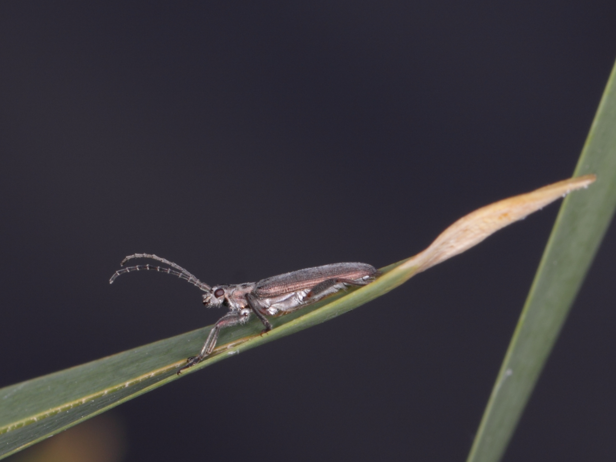 Donacia semicuprea PANZER, 1796 [confirmed by Boris Büche, 2013, based on photos] Genus: Donacia Subfamily: Donaciinae KIRBY, 1837 (Schilfkäder) Family: Chrysomelidae (leaf beetles, Blattkäfer) more info: or: or: info in